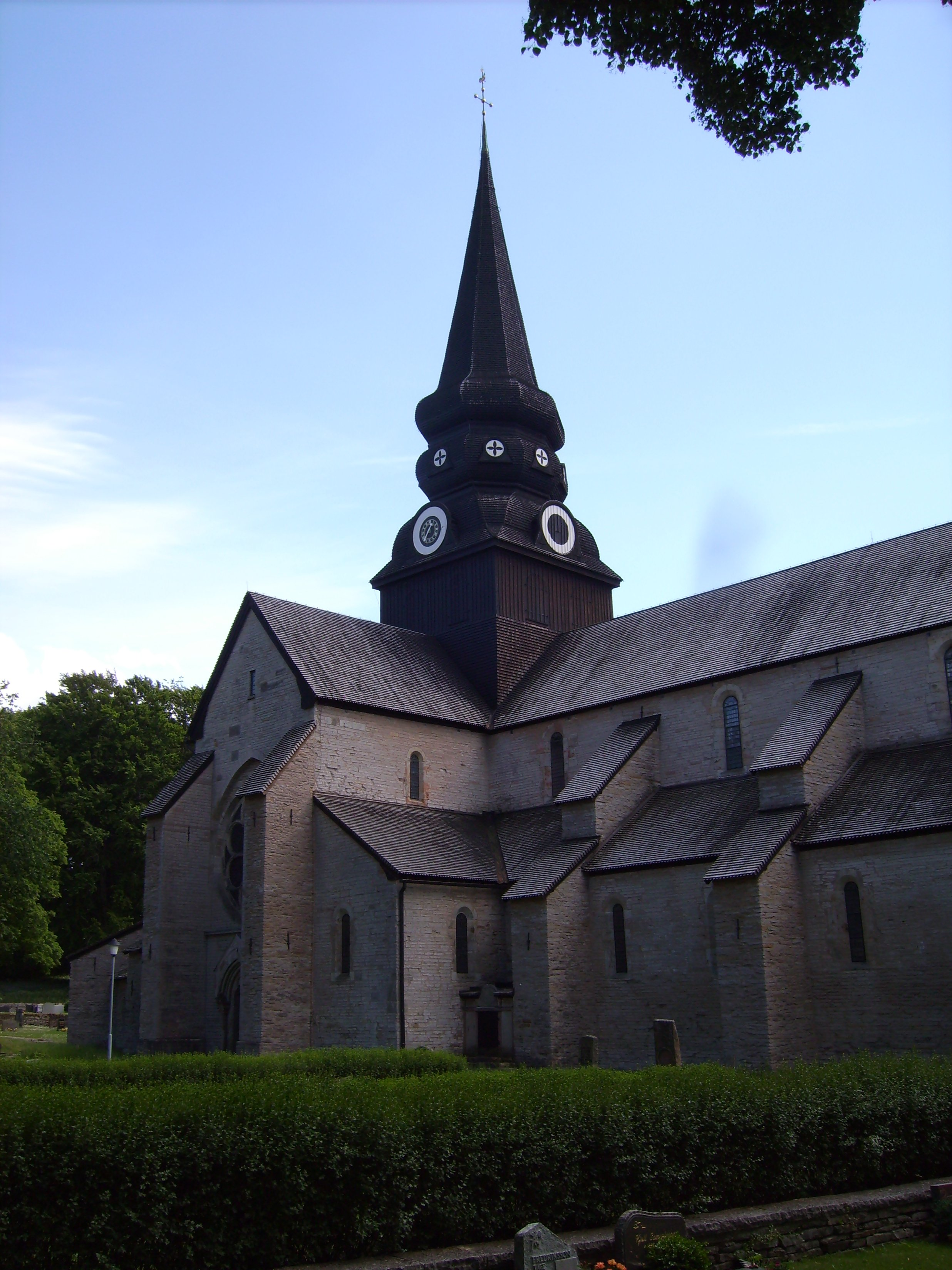 The monastic church Varnhem, convenient in the place Varnhem between the cities Skara and Skövde in the Swedish province Västergötland, is the grave church of the medieval king dynasty Eriks (Knut Eriksson and Erik Knutsson, Erik Eriksson) as well as the master father of the Bjälbodynasty Birger Jarl and realm chancellor Magnus Gabriel de la Gardie. The monastery Varnhem was created 1150 of Cistercians as a daughter of monastery Alvastra, in the Swedish province Östergötland. The monastic church, originally in Roman style built, was heavily damaged in a fire 1234. It became in early gothic style after the model of the churches of Clairvaux (France) and Marienfeld (Germany) rebuilt. In the centre of the 17th century Swedish realm chancellor Magnus visited de la Gardie, whose county Läckö laid not far from Varnhem, the church. It recognized the value of the church as former royal grave church and let it recondition, since it should accommodate its own burial place (and those family). Between 1918 and 1923 the church was again reconditioned. At the same time the foundation walls of the monastery buildings were excavated. These excavations were taken up to the 1970 years again and are today accessible to the public. Further pieces of find can be visited in the monastery museum beside the church.